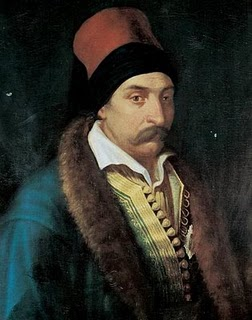 Andreas Zaimis